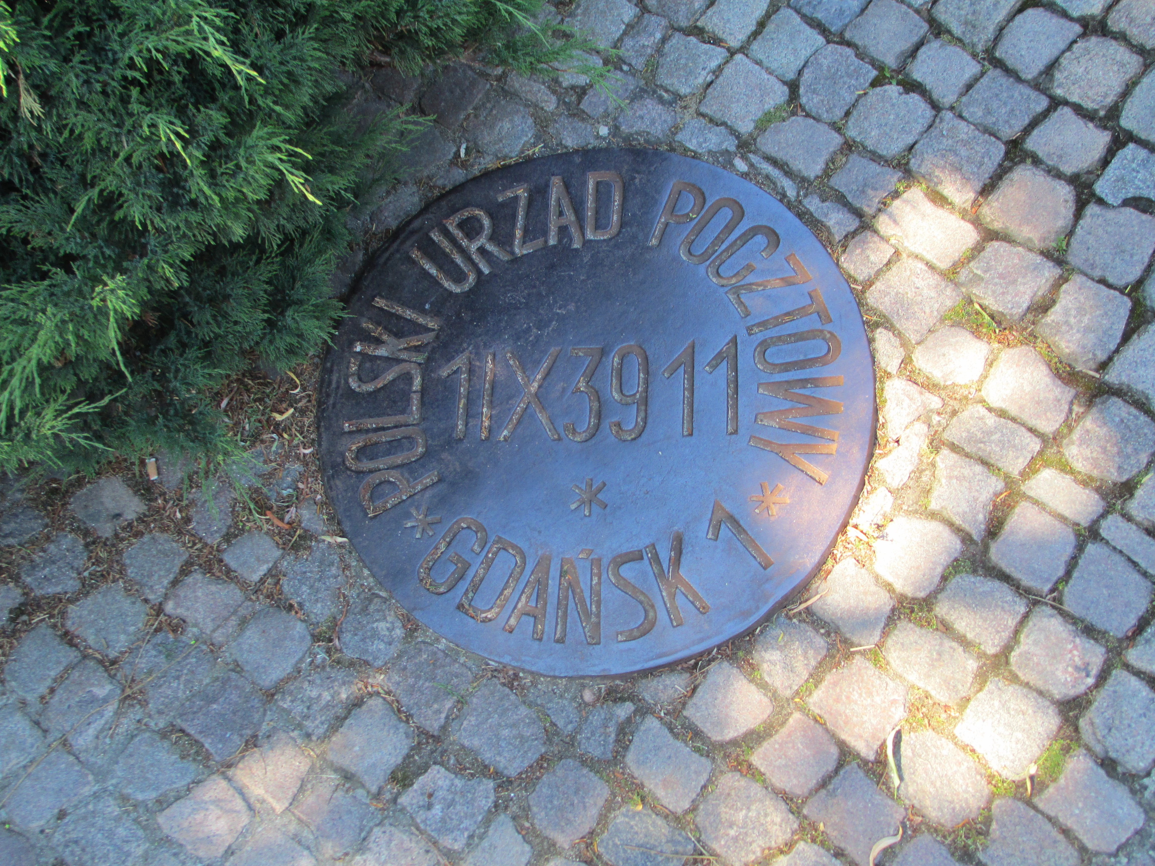 relief of polish office stamp in gdansk in 1/9/1939 in the defenders of the polish office in gdansk memorial